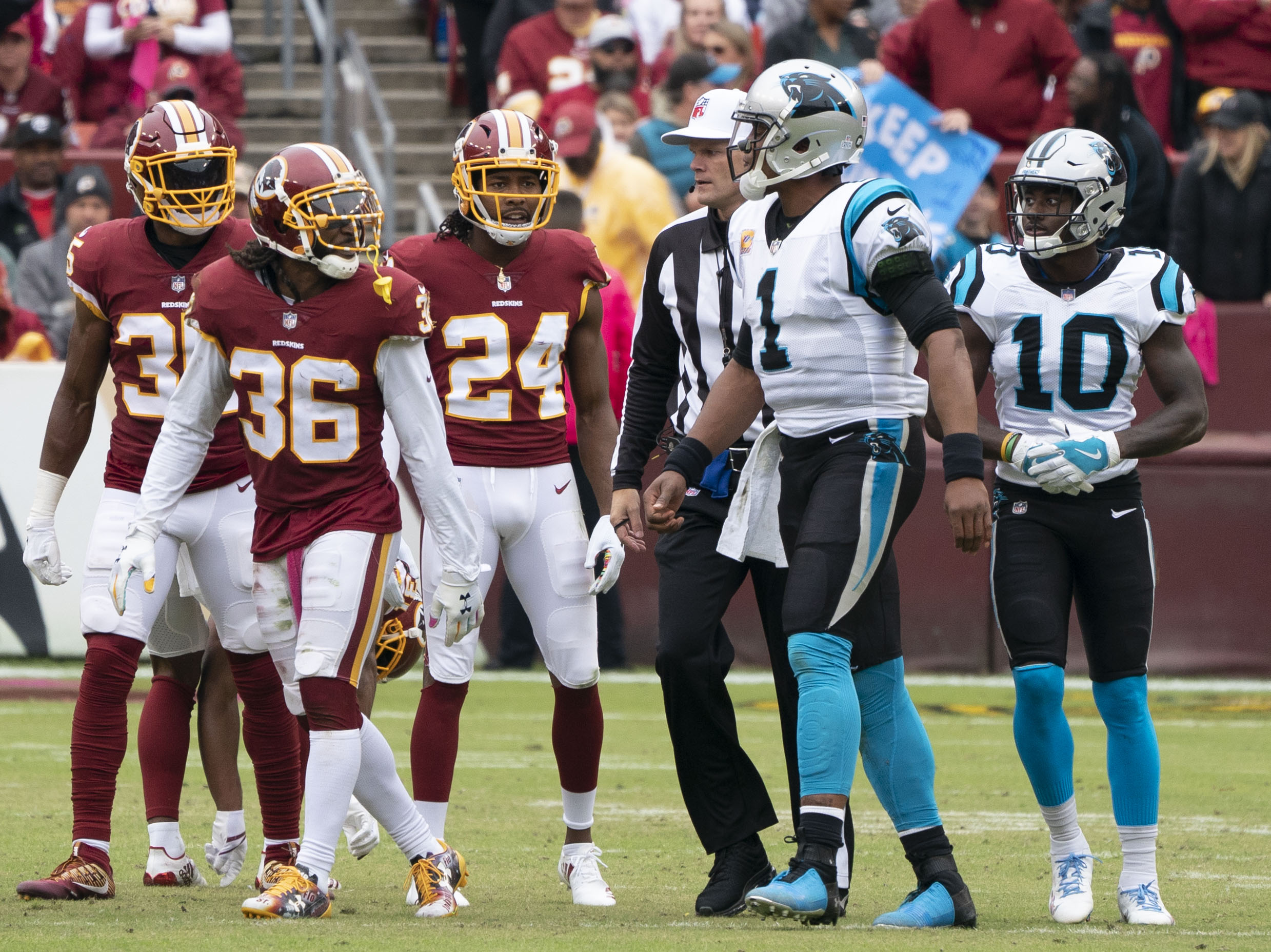 Carolina Panthers and Washington Redskins players during a 2018 game at FedEx Field